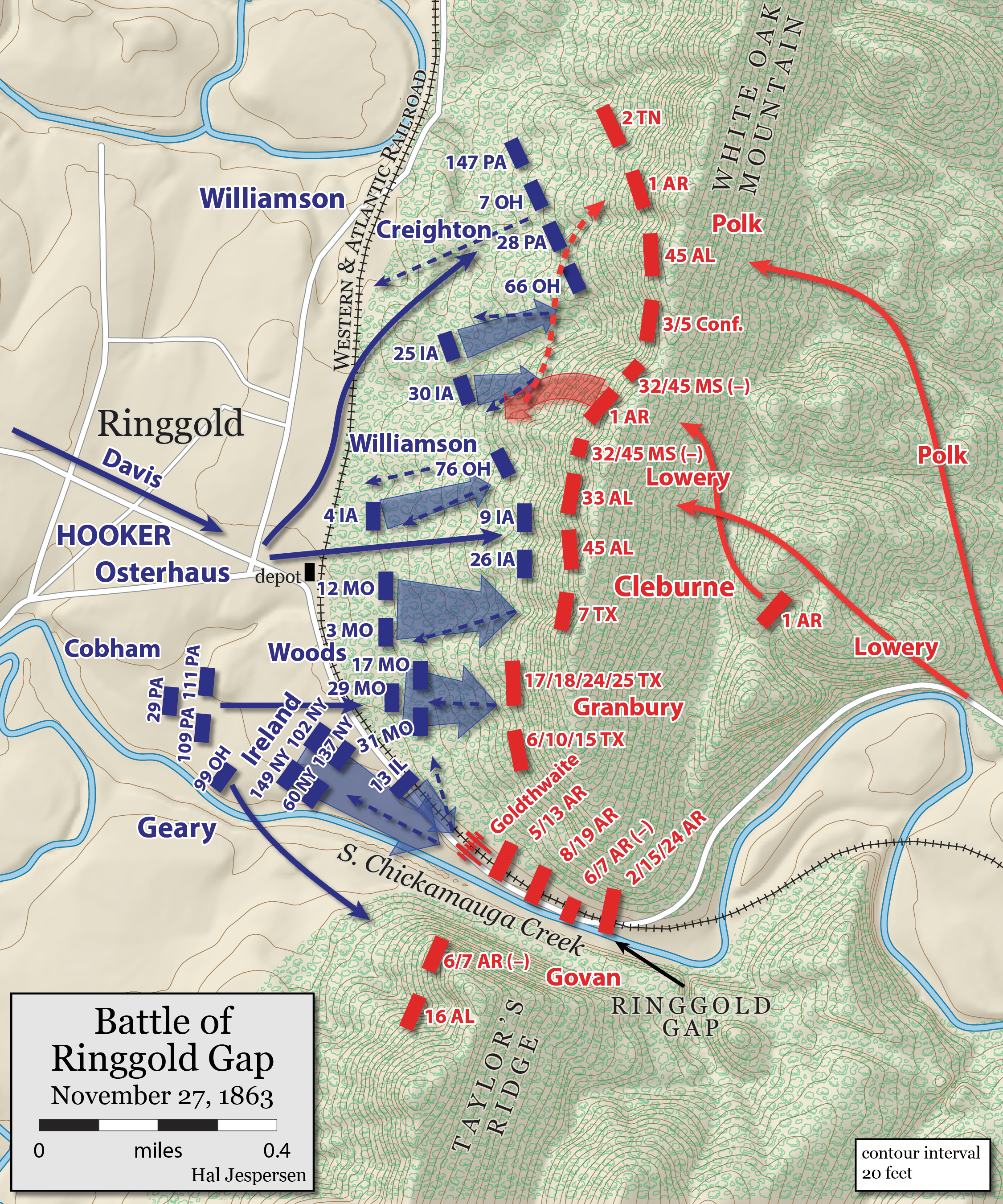 Map of the Battle of Ringgold Gap (Georgia), American Civil War, created by Hal Jespersen